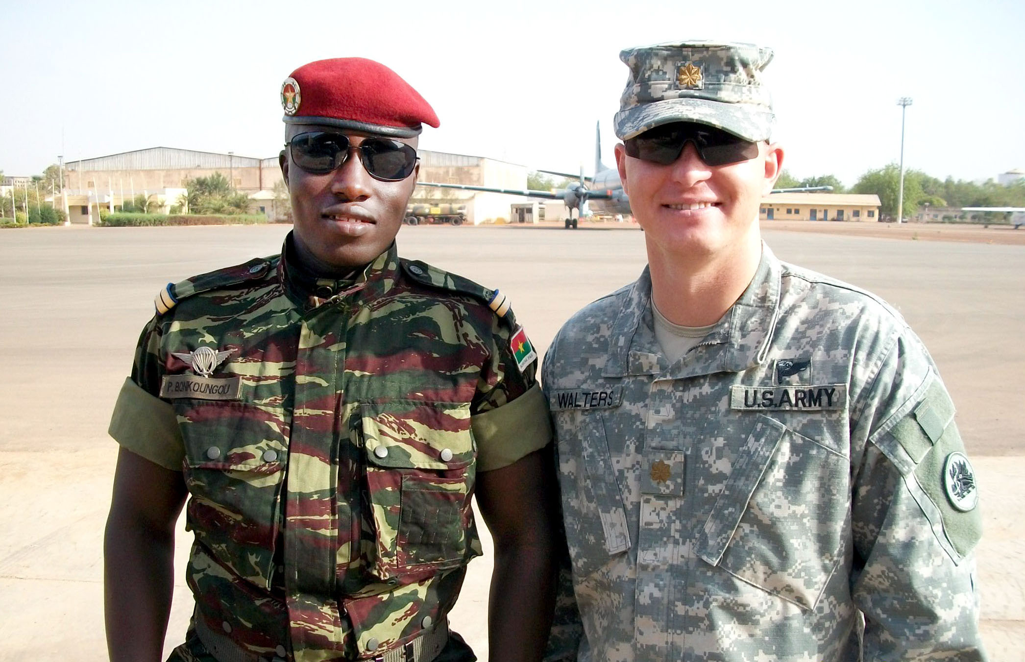 U.S. Army Maj. Russ Walters (right) and Burkinabe armed forces Lt. Phillipe Bonkoungou worked together during Africa Deployment Assistance Partnership Team (ADAPT) training in Ouagadougou, Burkina Faso. Walters is the executive officer for the Georgia Army National Guard’s 110th Combat Sustainment Support Battalion. (U.S. Army Africa photo) To learn more about U.S. Army Africa visit our official website at Official Twitter Feed: Official Vimeo video channel: Join the U.S. Army Africa conversation on Facebook